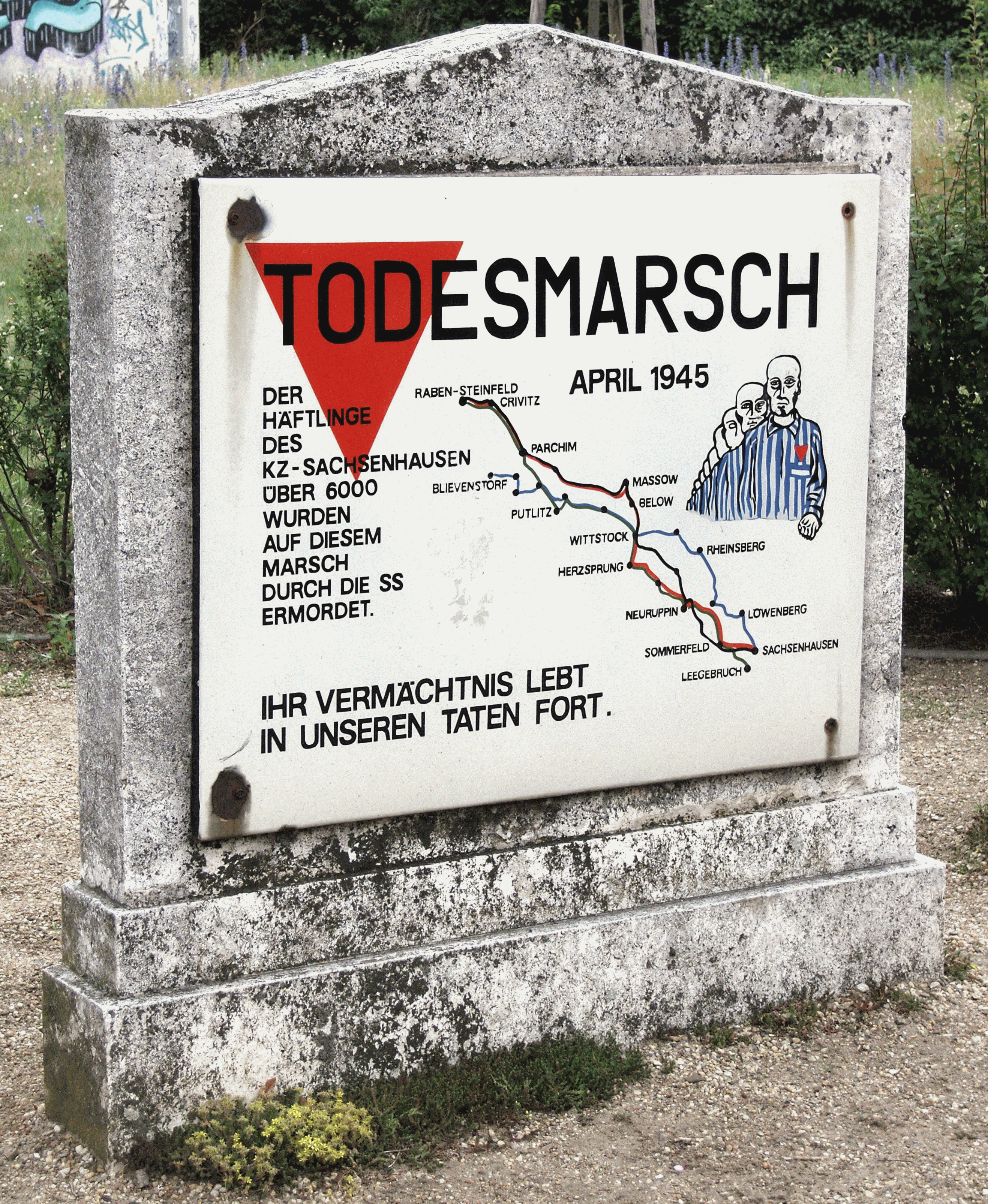 Memorial of the death march in Sachsenhausen